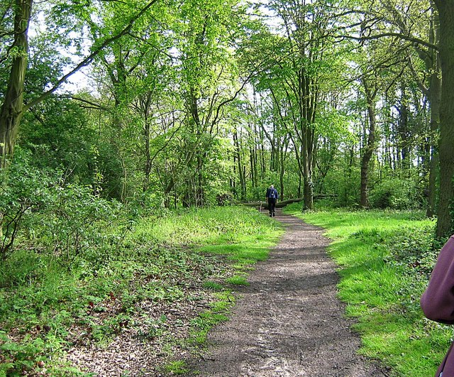 Woodland Path in Hainault Forest Country Park — a public footpath in the London Borough of Redbridge section, Greater London.